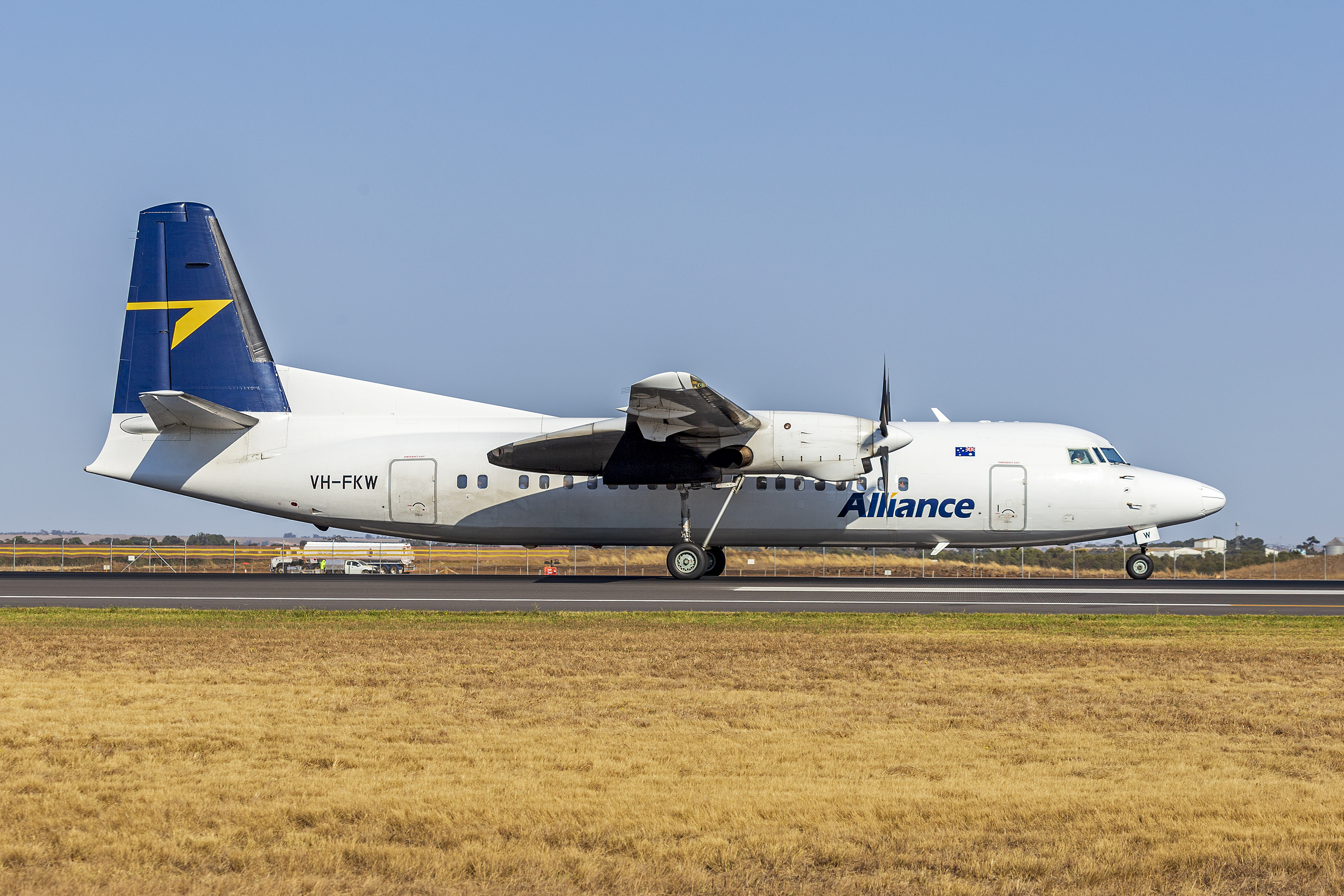 Alliance Airlines (VH-FKW) Fokker 50 taxiing at Avalon Airport